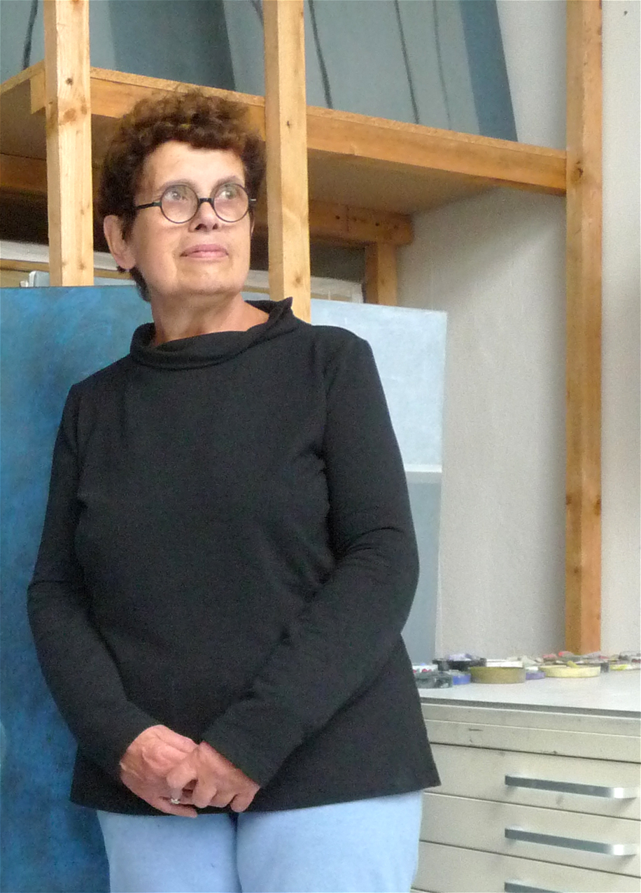 Sarah Haffner in her Studio